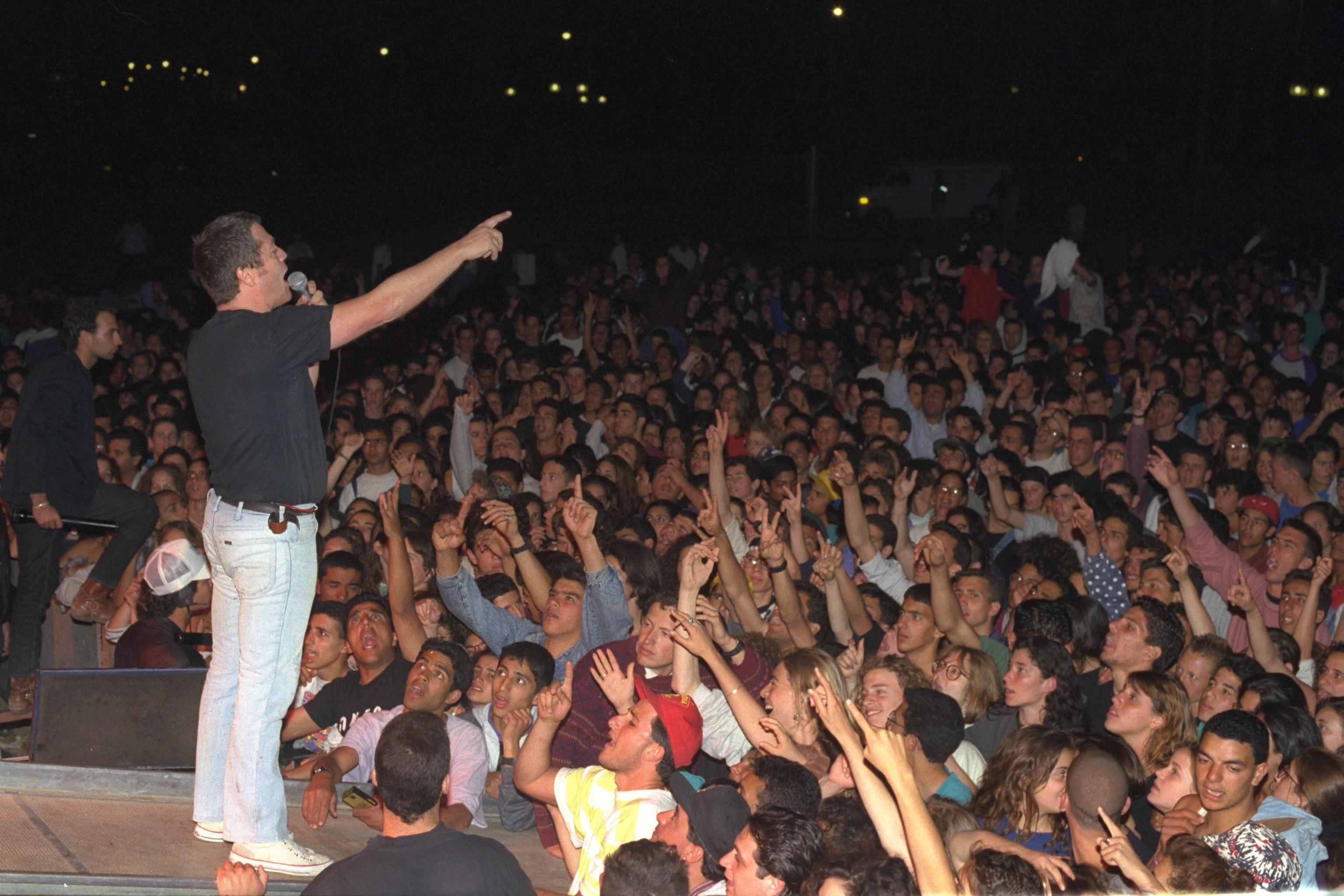 Singer Shlomo Artzi performing at a rock festival in the Red Sea. שלמה ארצי מופיע בפסטיבל ערד Photo: KOREN ZIV.